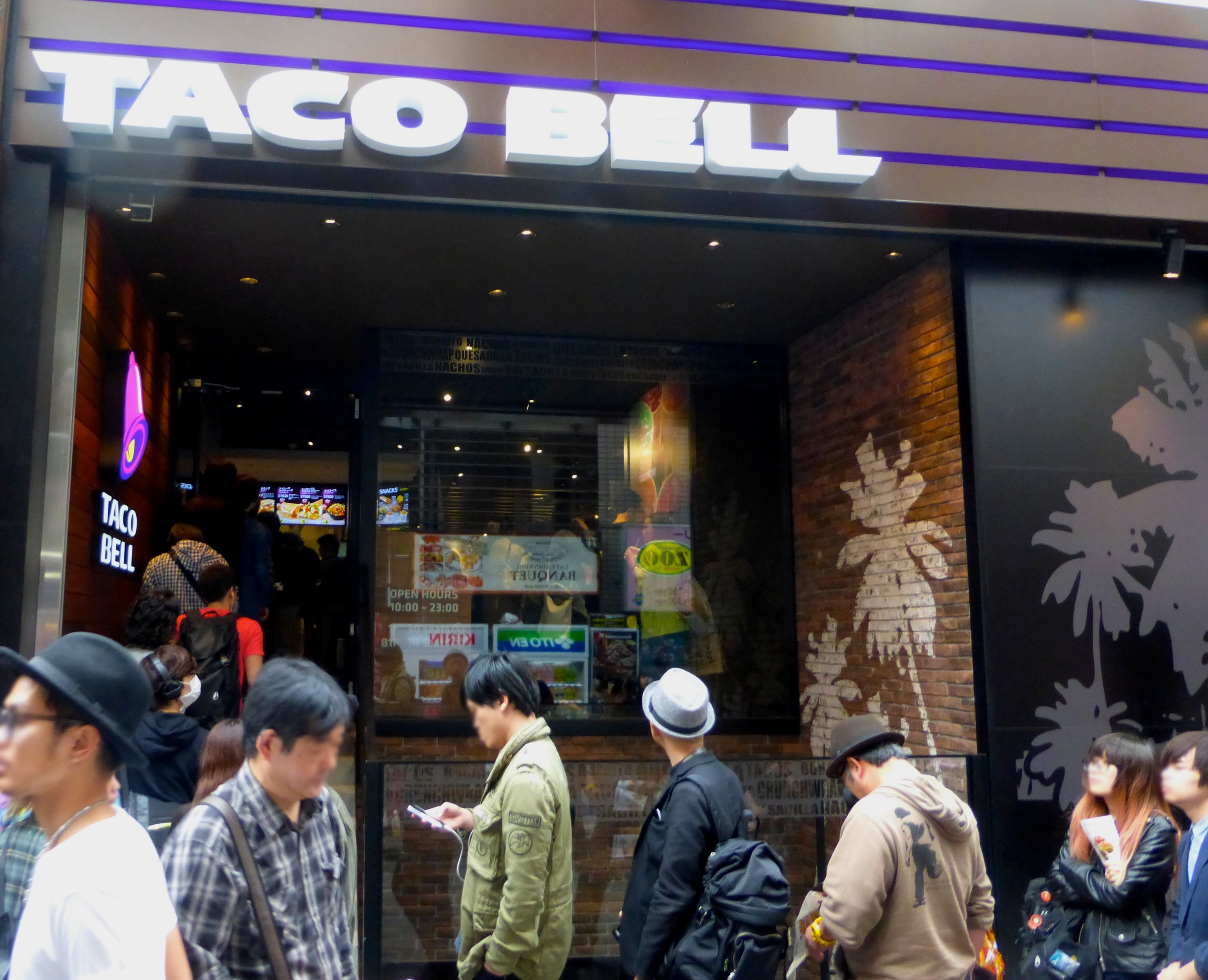 タコベルの第1号店が2015年4月21日 (渋谷区道玄坂) Taco Bell Japan's first new restaurant in Dogenzaka, Shibuya on opening day